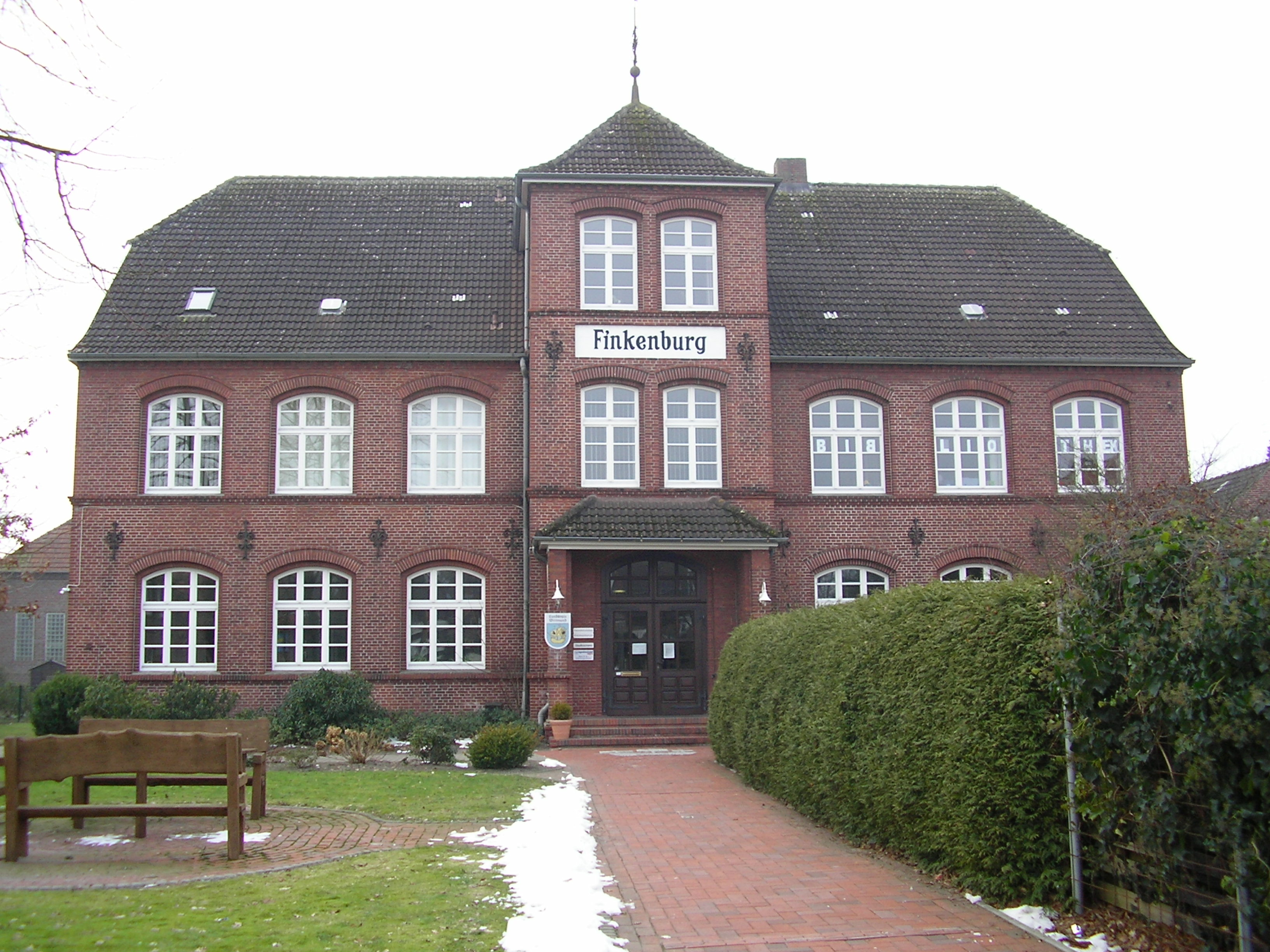 Former Finkenburgschool Wittmund